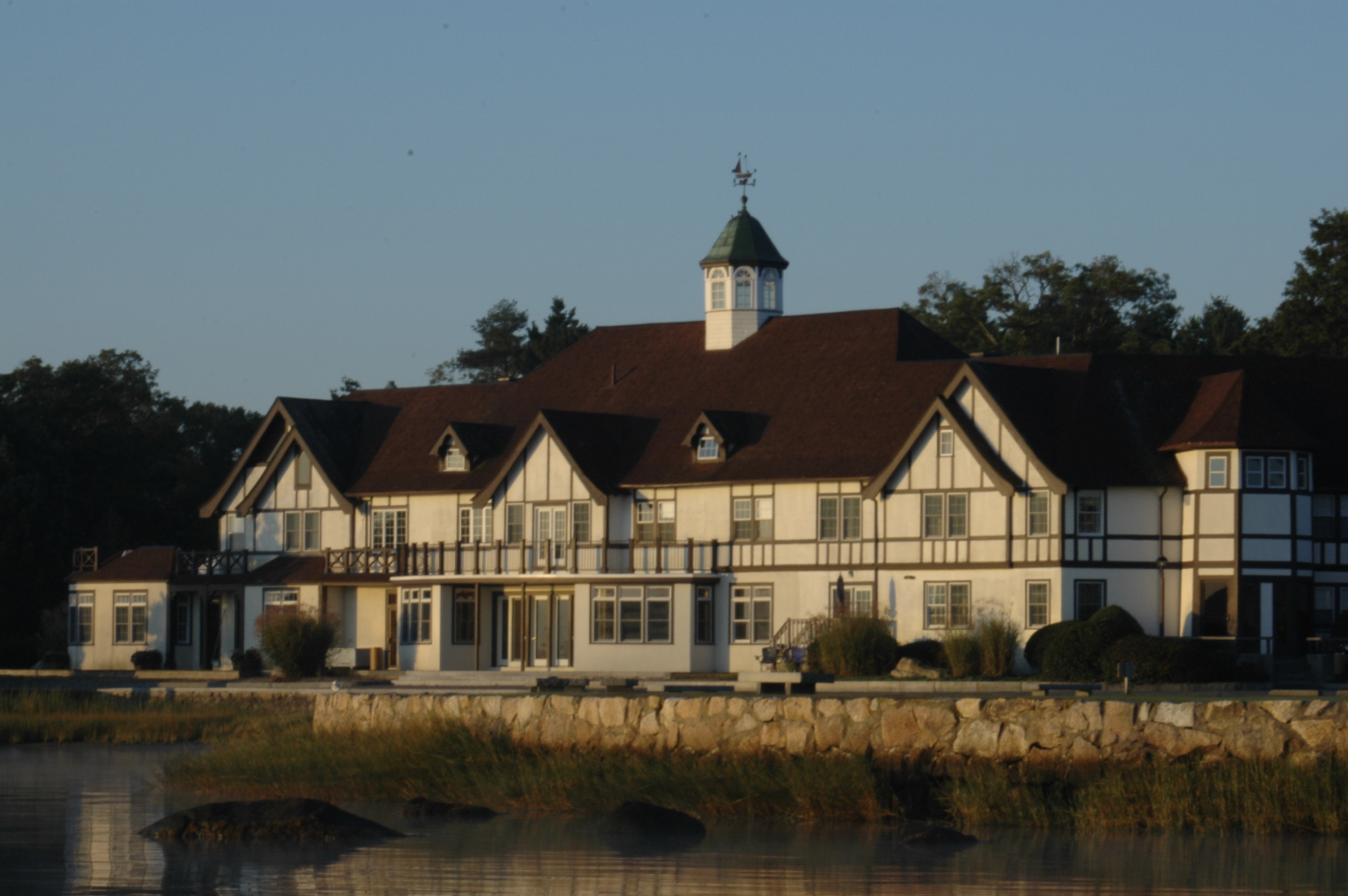 The Lillard Hall dormitory at the Tabor Academy, a private prepatory boarding school in Marion, Massachusetts.